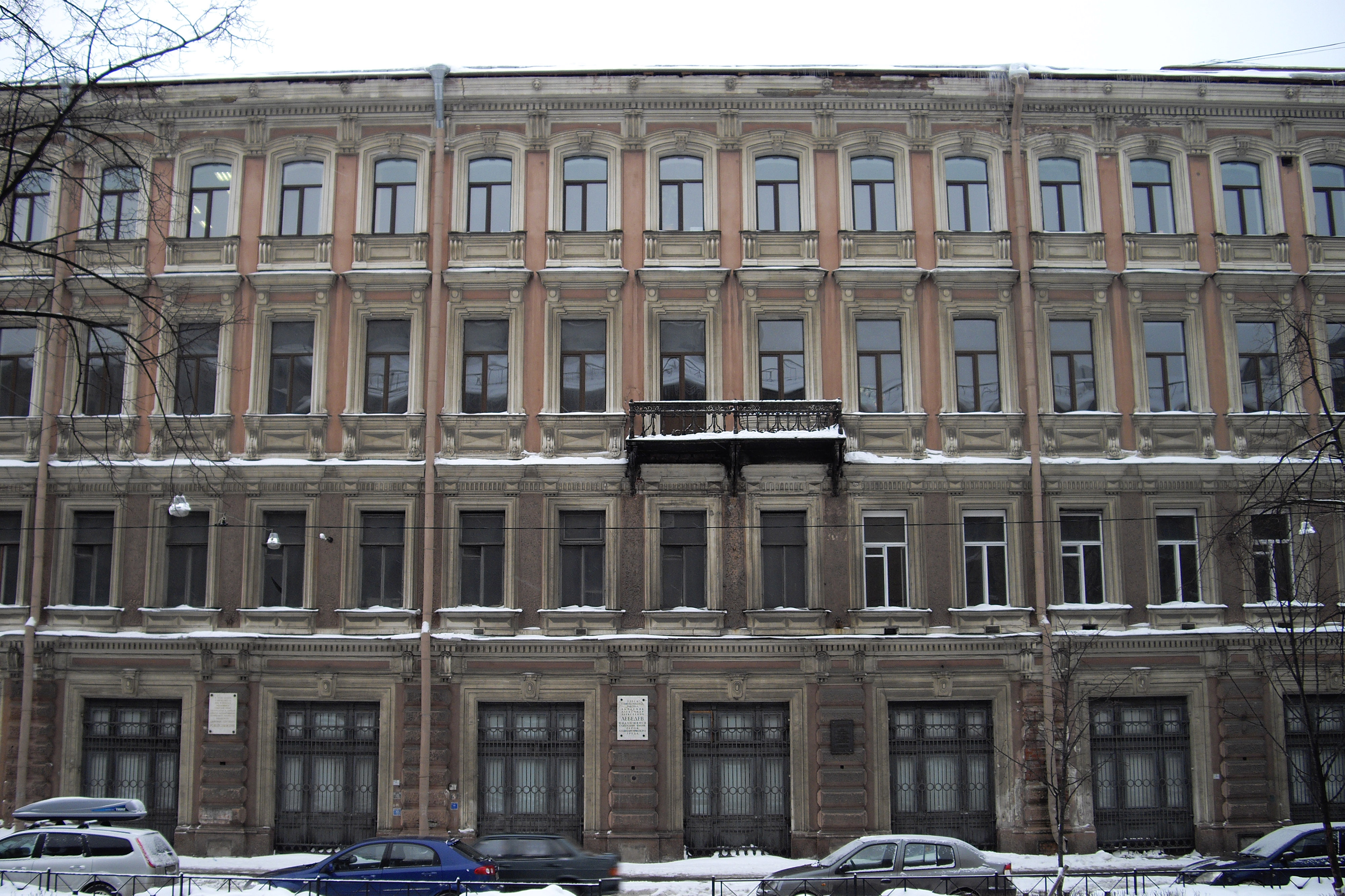 14, Birzhevaya Line in Saint Petersburg, Russia. Former (before 1917) Elisseev's Company Building; later (since 1920s) a building of S. I. Vavilov State Optical Institute.